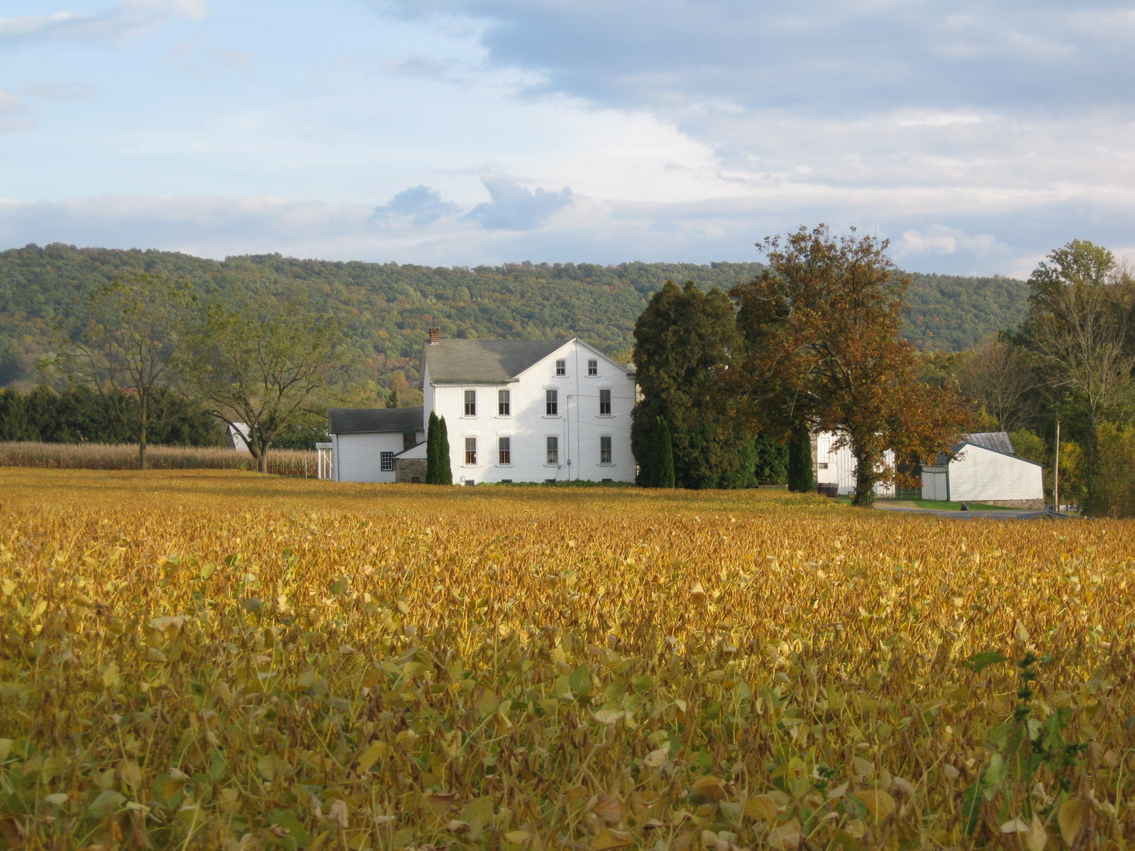 Pleasantville, Oley Township, Pennsylvania